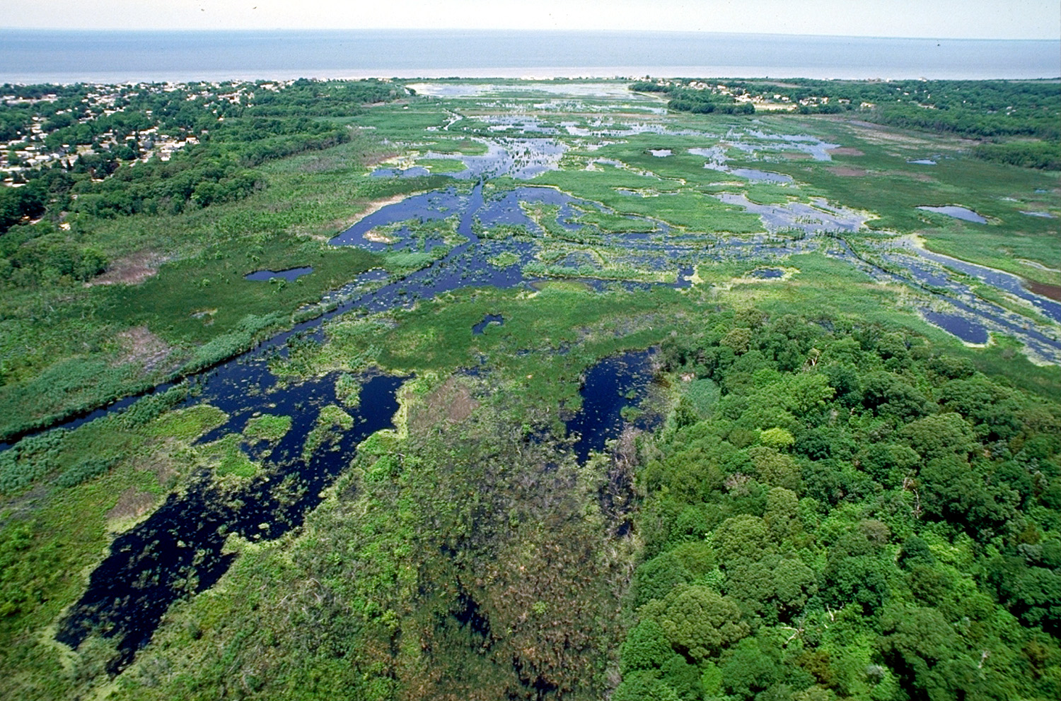 Wetlands in Cape May, New Jersey, USA. View of Fishing Creek Marsh with Miami Beach, New Jersey on the left. A managed by Cape May County Park system. [1]